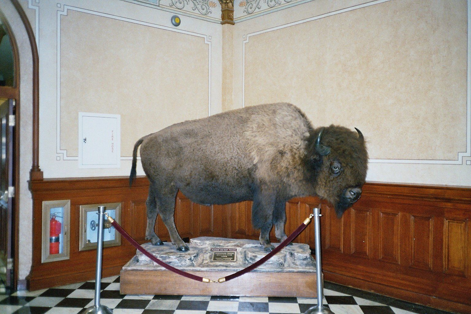 Bison in the Capitol of Cheyenne Wyoming